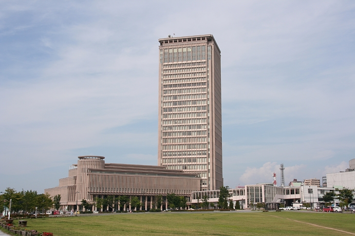 Kajō Central (Yamagata City, Yamagata Prefecture, Japan.)